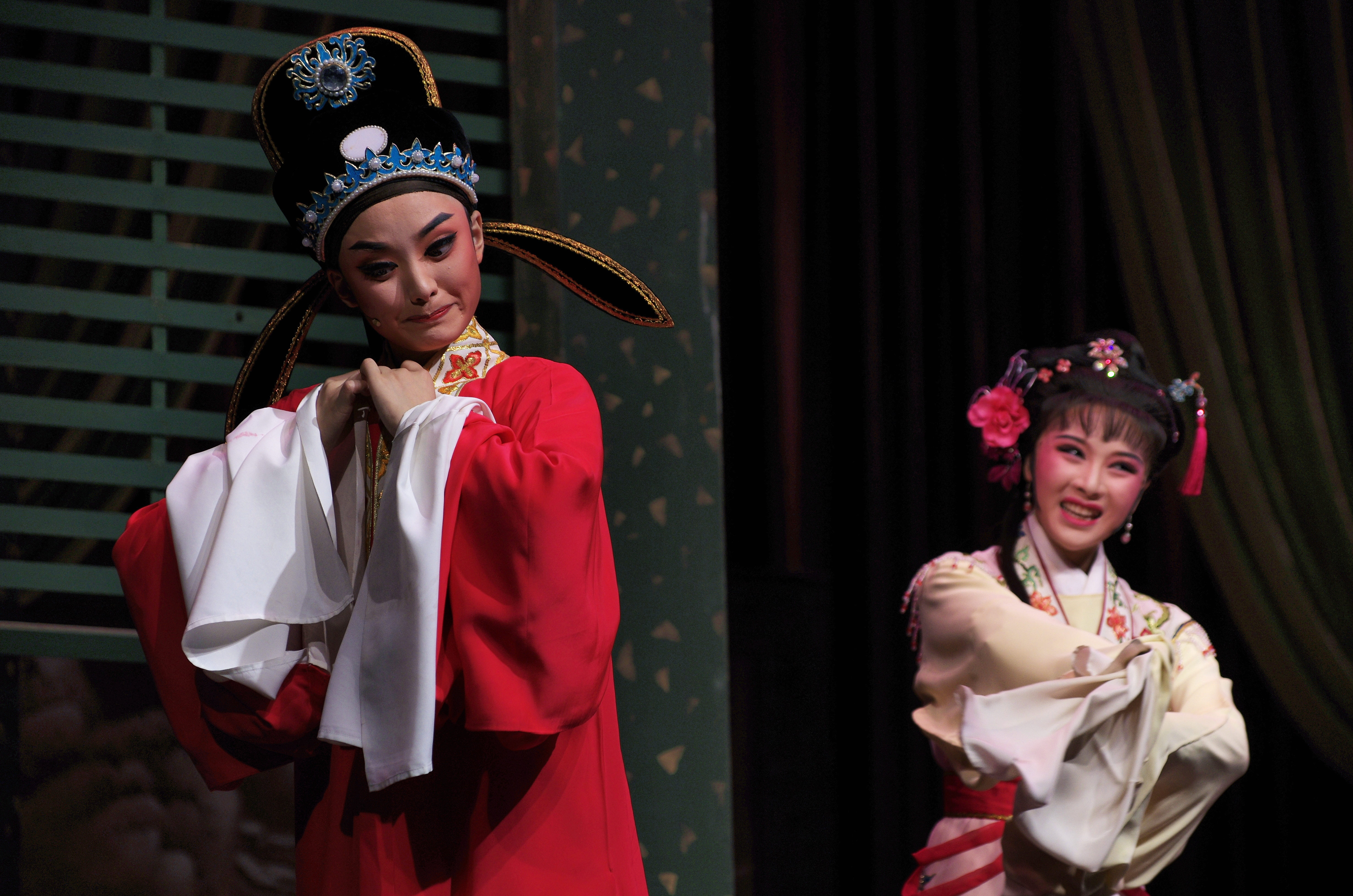 A Shaoxing opera performance of Romance of the Western Chamber in Tianchan Theatre, Shanghai, China. The actresses, Wang Wanna (王婉娜) and Chen Xinyu (陈欣雨) were students at Shanghai Theatre Academy.